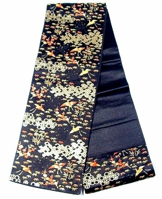 This black fukuro obi has appealing crane and other auspicious motifs, which is woven elaborately. It is called 'Kyobukuro', which is shorter than usual fukuro obi.